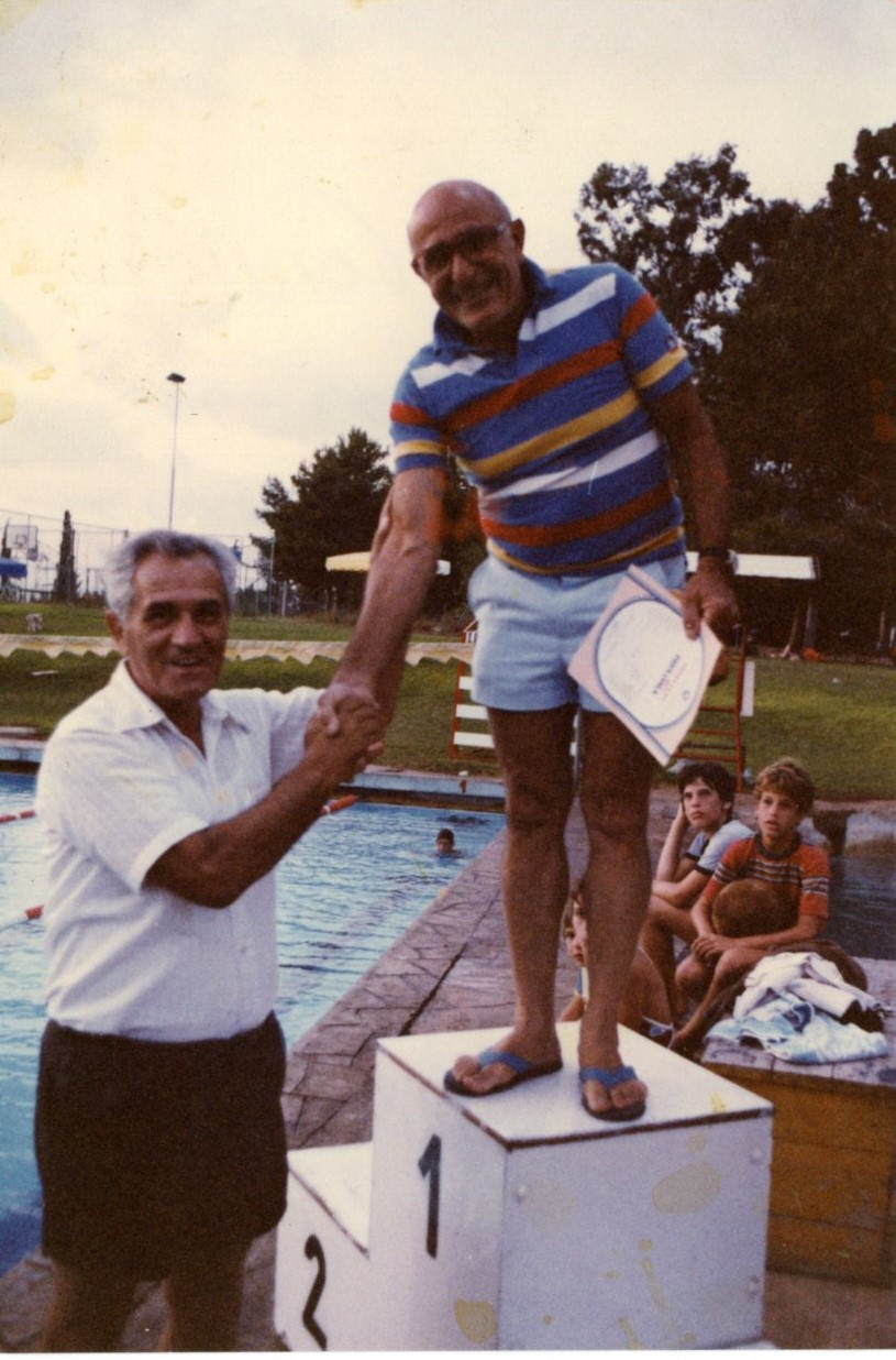 Issac Yehezkel After Winning The Krav Rav 1983